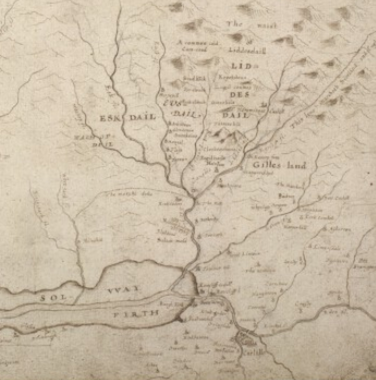 Map of western borderlands between Scotland and England from Liddesdale and Eskdale to Gilsland, the Solway Firth to Carlisle, homes to many notorious border reivers.